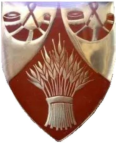 SADF era Wepener Commando emblem